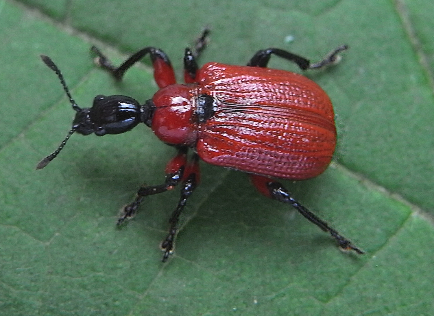 Apoderus coryliRicoh R8